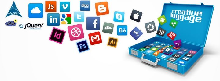 Creative Luggage Know-How